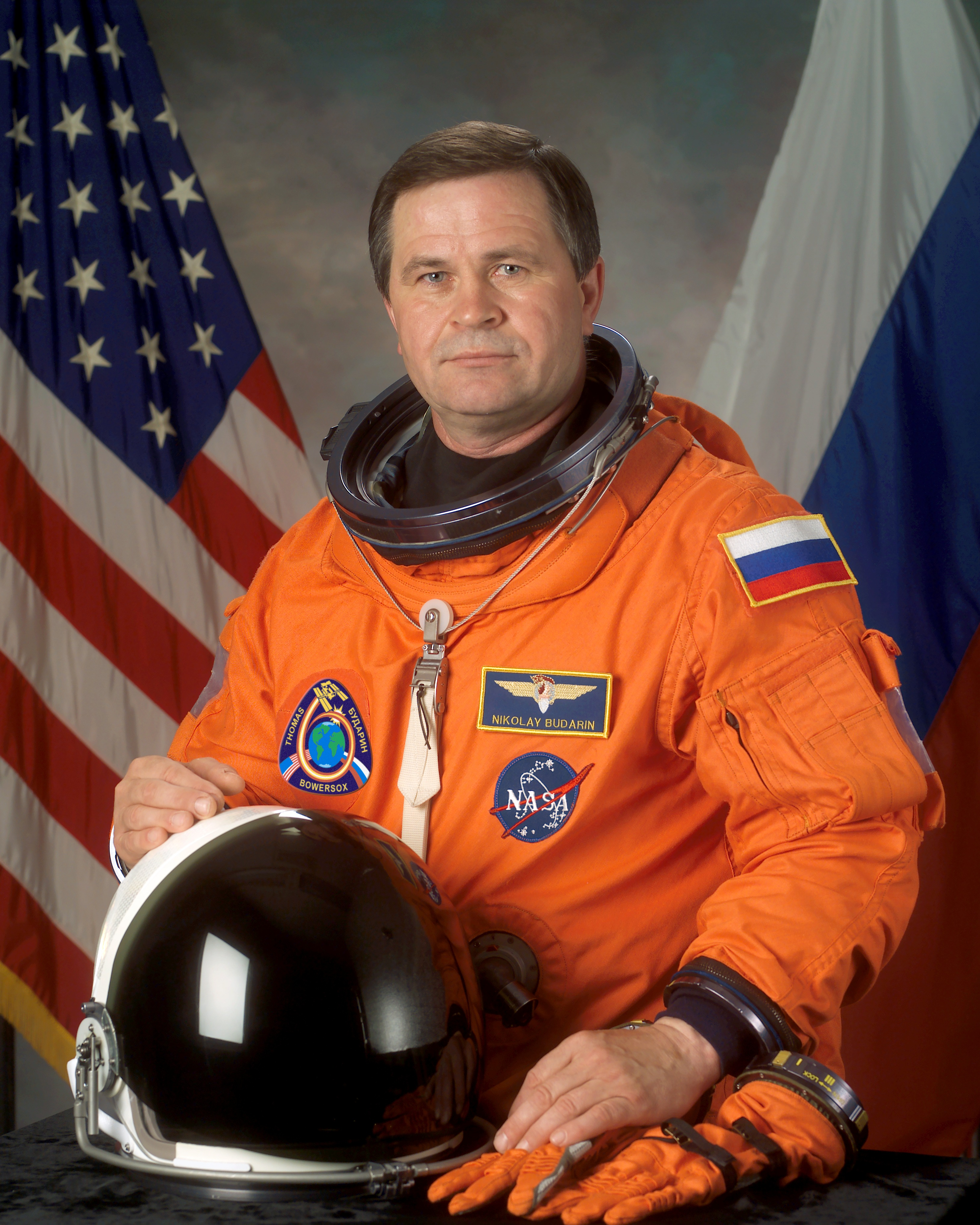 Official Portrait of STS-113 Cosmonaut Nikolai M. Budarin; JOHNSON SPACE CENTER, HOUSTON, TEXAS -- (JSC2002-E-44140) --- Cosmonaut Nikolai M. Budarin, flight engineer representing Rosaviakosmos; ID: KSC-02PD-1675; Credit: NASA Kennedy Space Center (NASA-KSC)